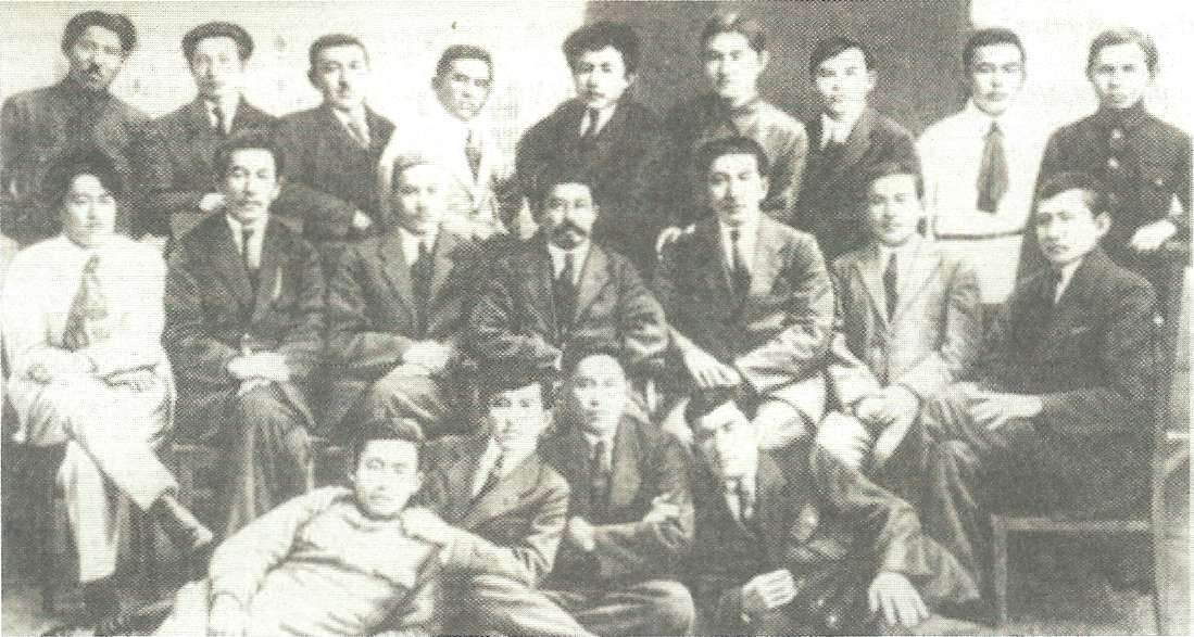 рауан